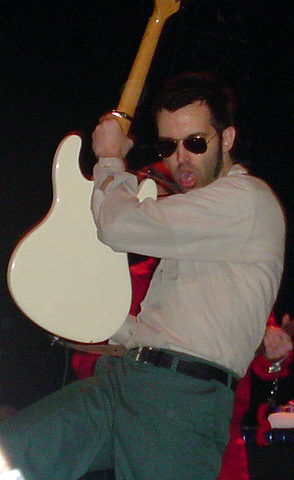 Mark Oliver Everett, live at Sydney's Enmore Theatre in September 2003.